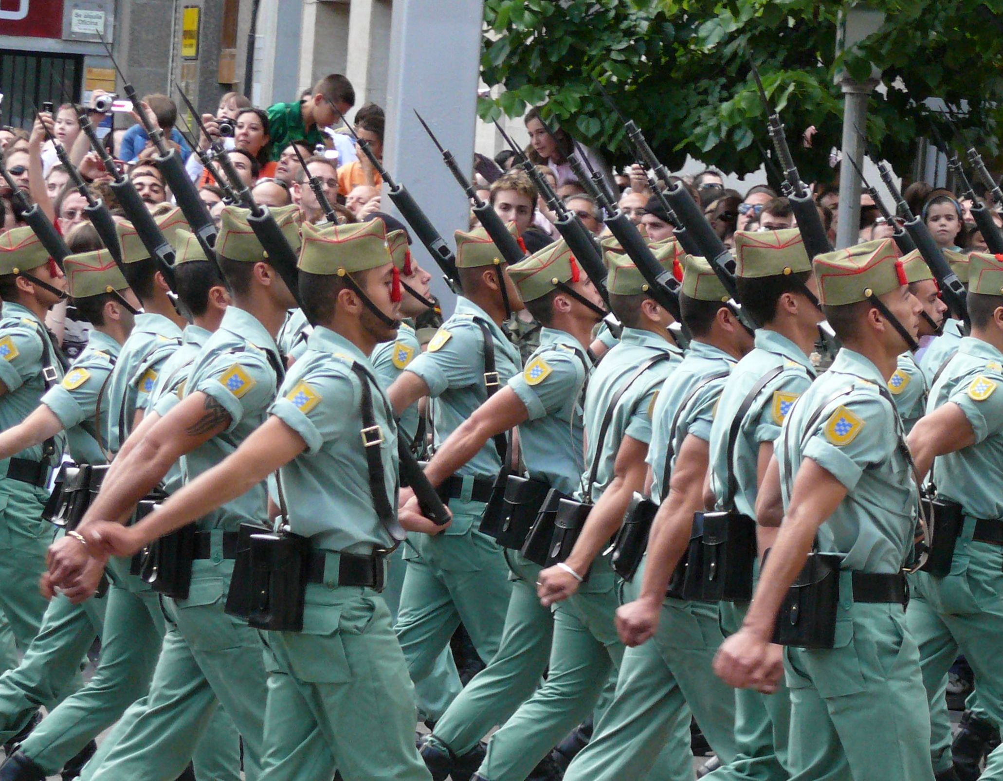 Armed Forces Day parade Spain, 2008